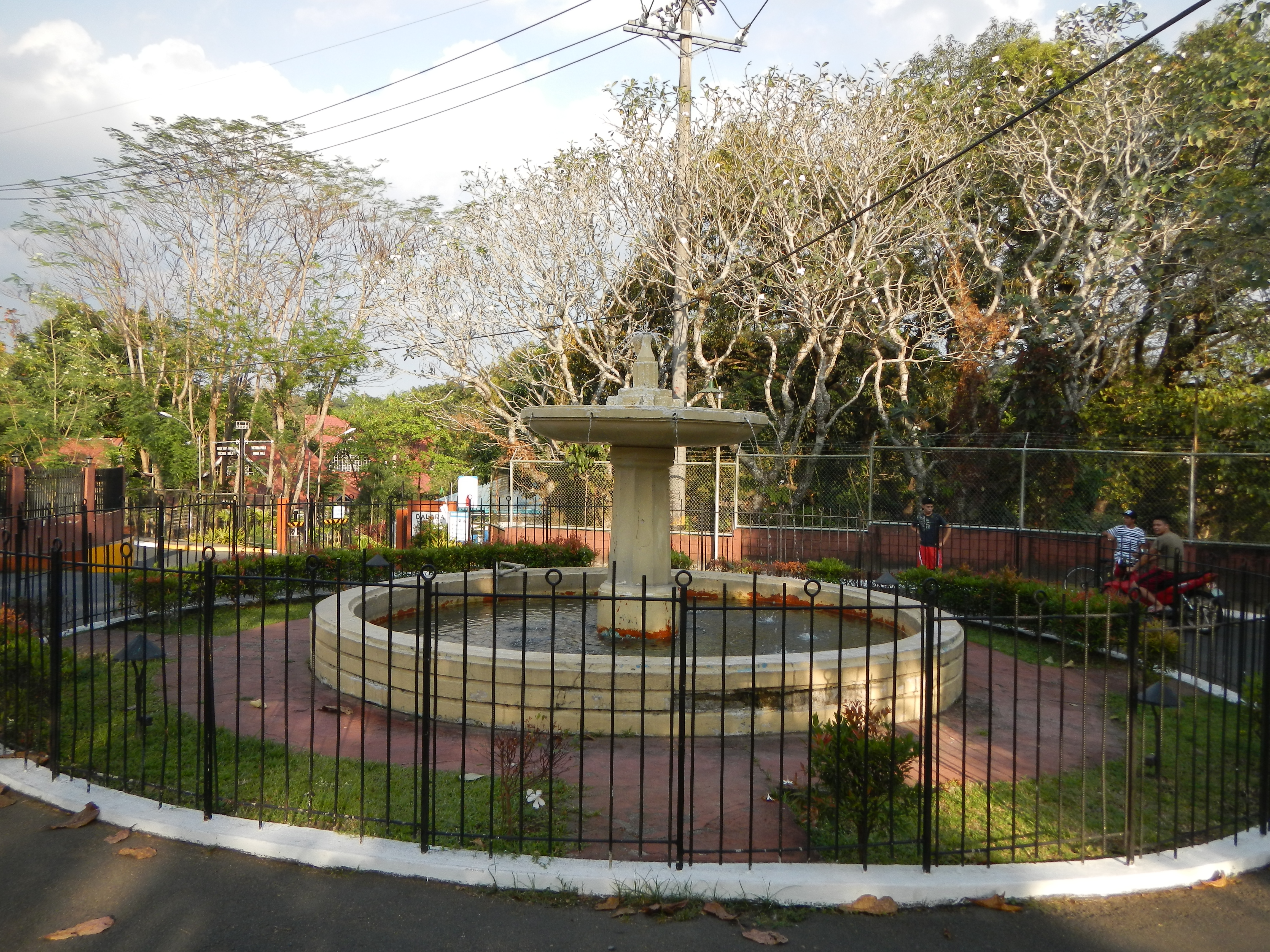 Photos of Balara Filters Park (Nature And Wildlife) - in Katipunan Extension, Diliman, Quezon City - or the Manila Water Lakbayan Cente is a 60 hectare property almost as big as Rizal Park dotted with vintage structures and statuary such as : an Italian Style Chapel, the Orosa Hall, Escoda Hall Swimming Pool, Balara Filtration Windmill, Children's Park, the MWSS Balara Water Reservoir and Filtration Plant, Water Drinking Treatment Plant this is part of the List of Art Deco architecture and List of parks in Manila. This park is managed and is under the exclusive jurisdiction of Metropolitan Waterworks and Sewerage System that is, Manila Water Water Delivery Sewerage [1] and Sanitation [2] at the Balara Treatment Plant, and also under Manila Water and finally by